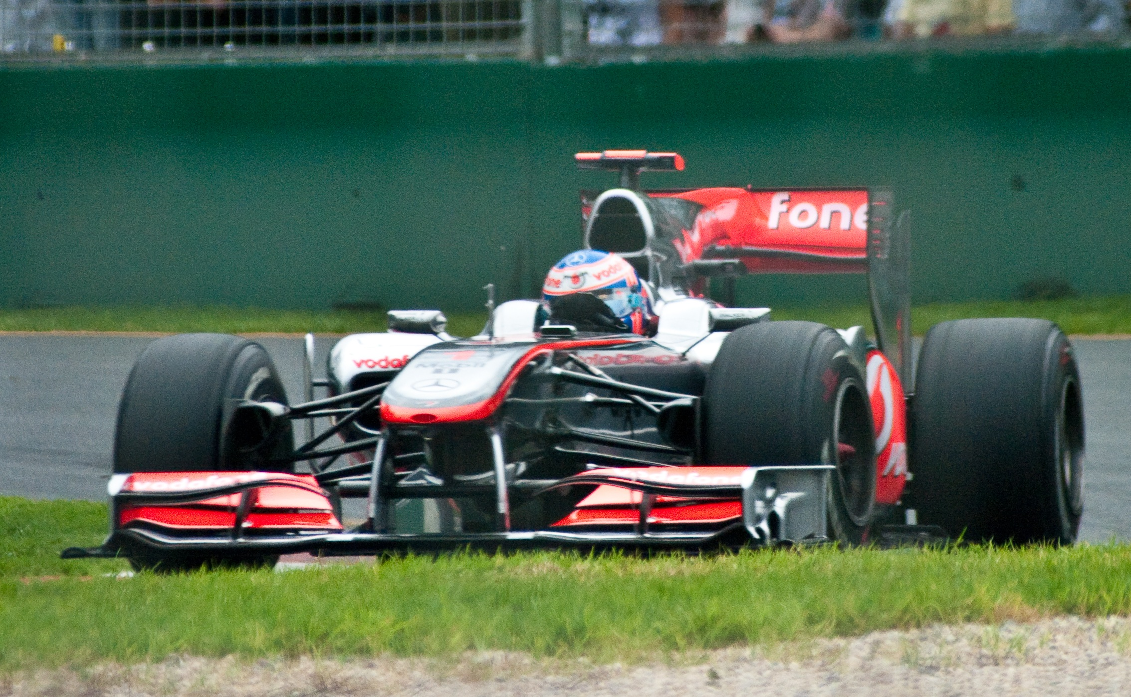 Button at Australia